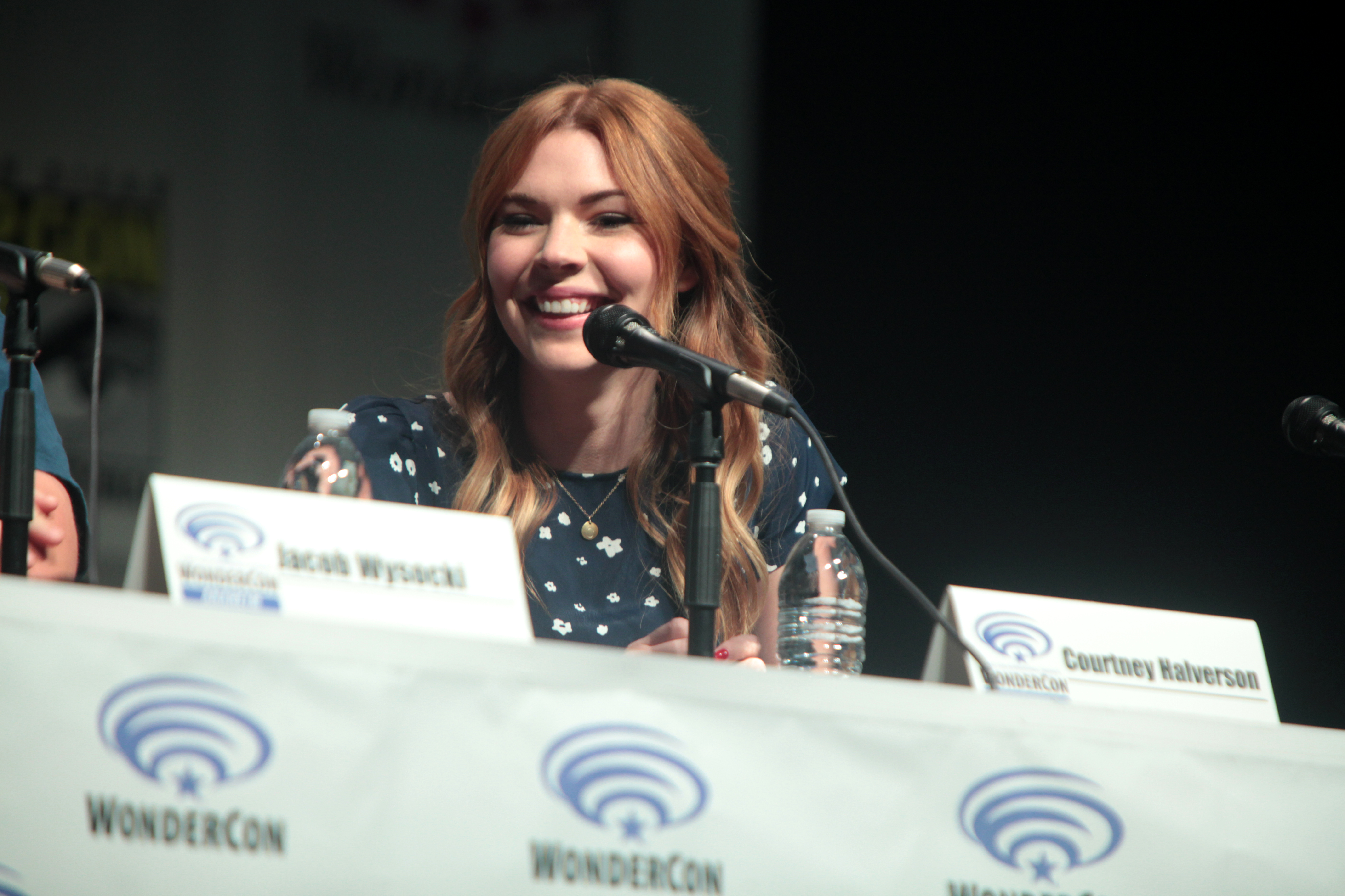 Courtney Halverson speaking at the 2015 Wondercon, for "Unfriended", at the Anaheim Convention Center in Anaheim, California.